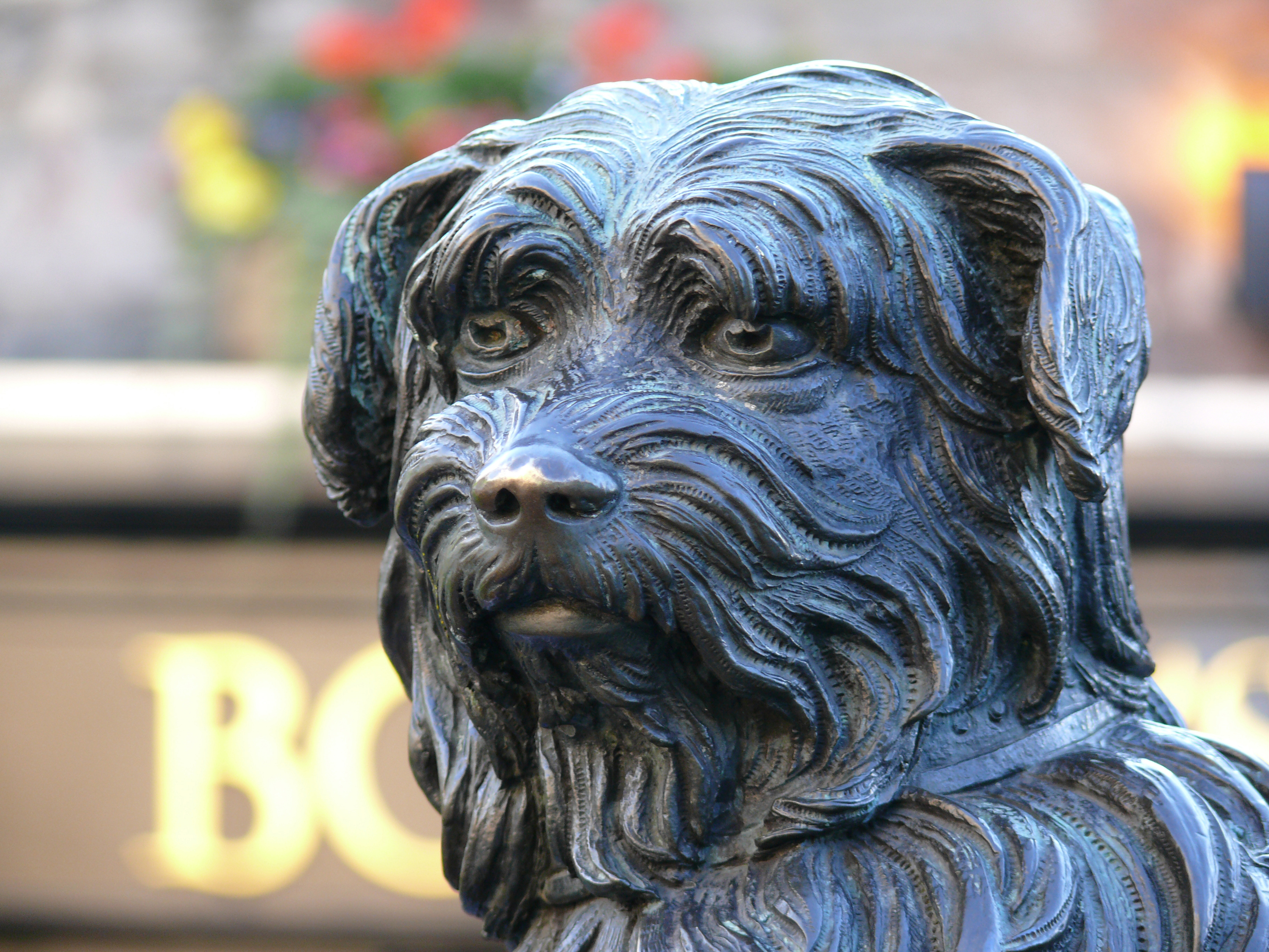 In 1873 Lady Burdett-Coutts commissioned a statue and fountain which was erected at the southern end of the George IV Bridge to commemorate Greyfriars Bobby. Bobby was a Skye Terrier who reportedly spent 14 years guarding the grave of his owner, John Gray, until he died himself on 14 January 1872.